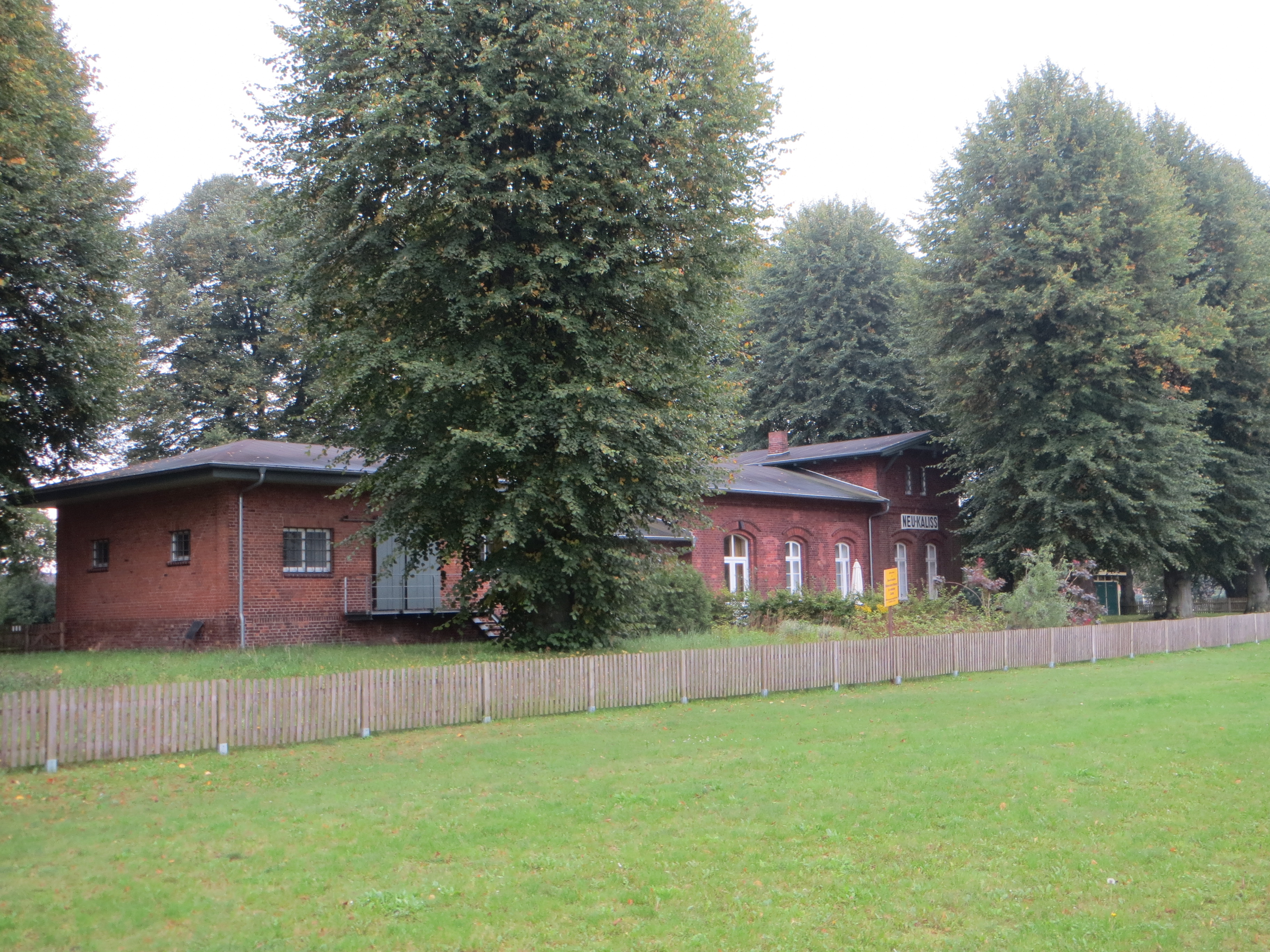 (ehemaliger) Bahnhof in Neu Kaliß